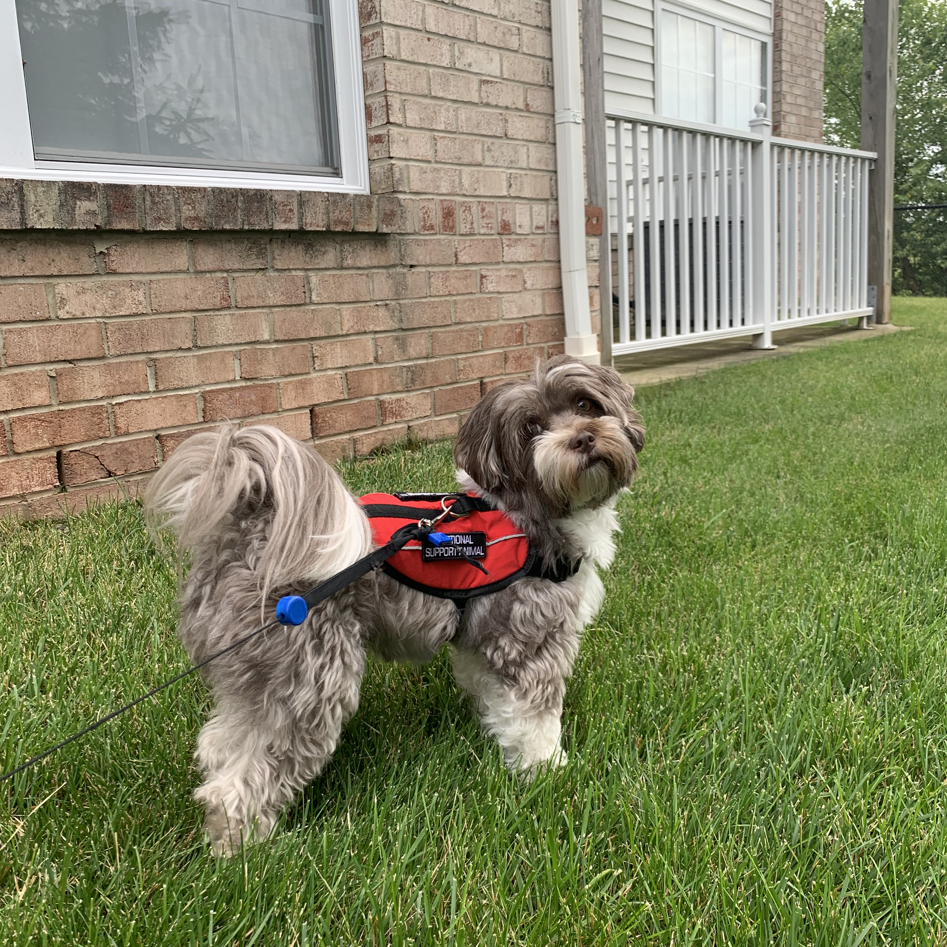 Walking havanese